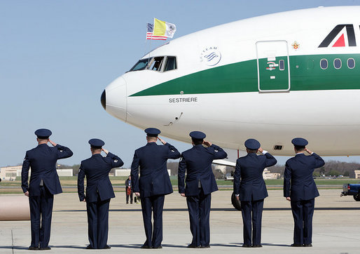 Military personnel salute as the Alitalia jetliner carrying Pope Benedict XVI arrives at Andrews Air Force Base. The Pontiff will be welcomed Wednesday at the White House and will celebrate Mass Thursday morning before continuing his U.S. visit in New York City.